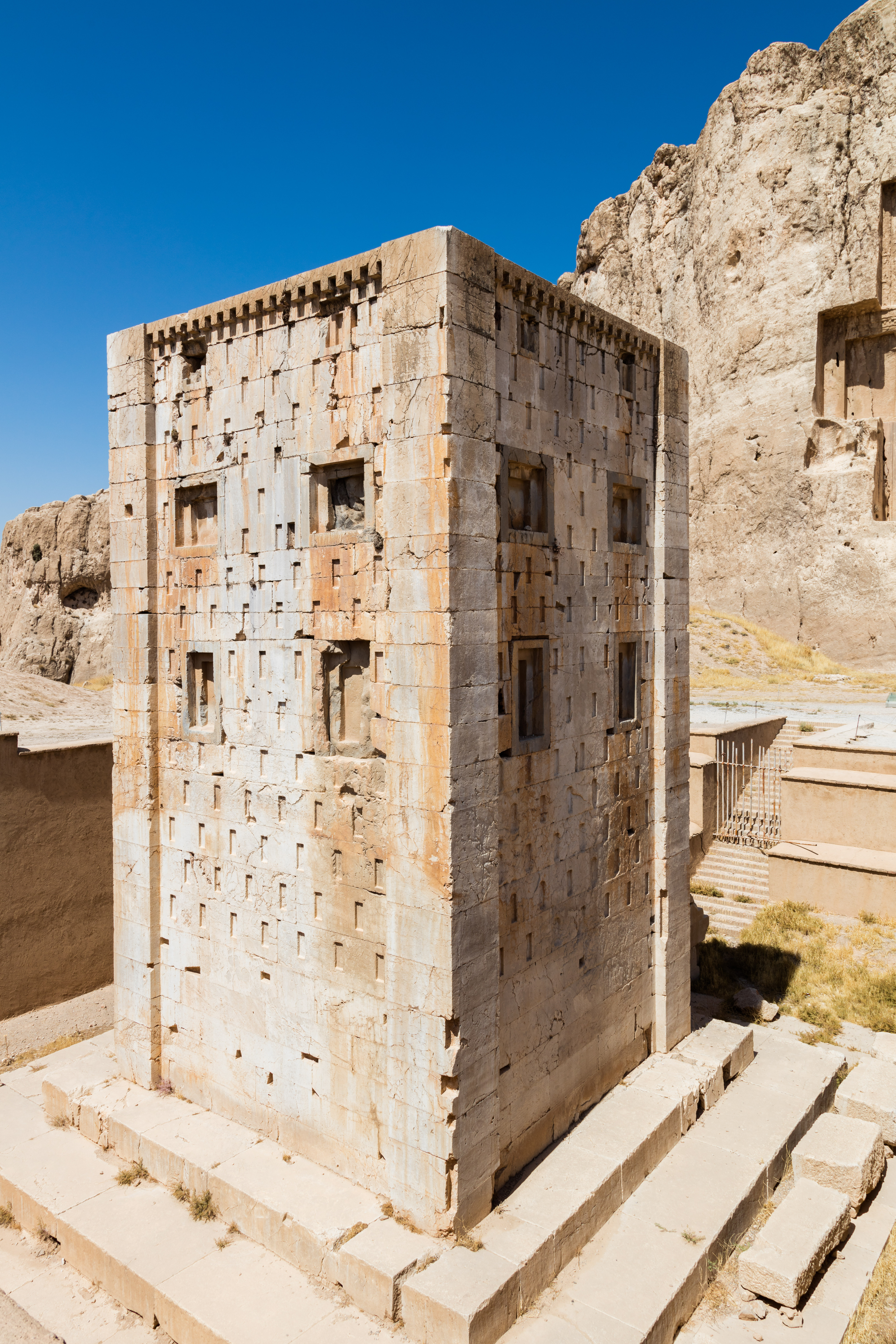 Naghsh-e rostam, Iran